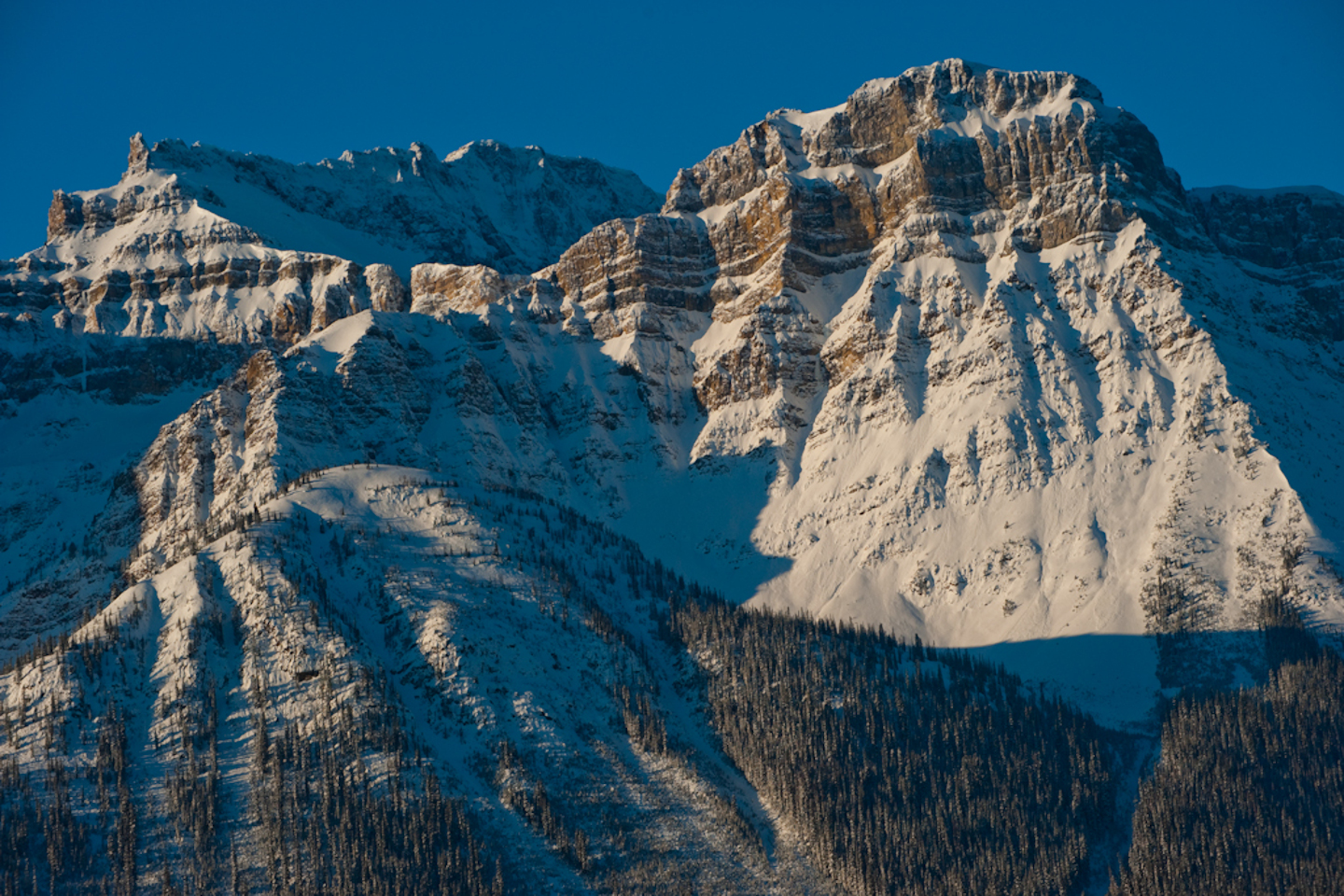 Pulpit Peak (showing pulpit in the upper left) and its east shoulder, as taken from the W:Icefields Parkway.